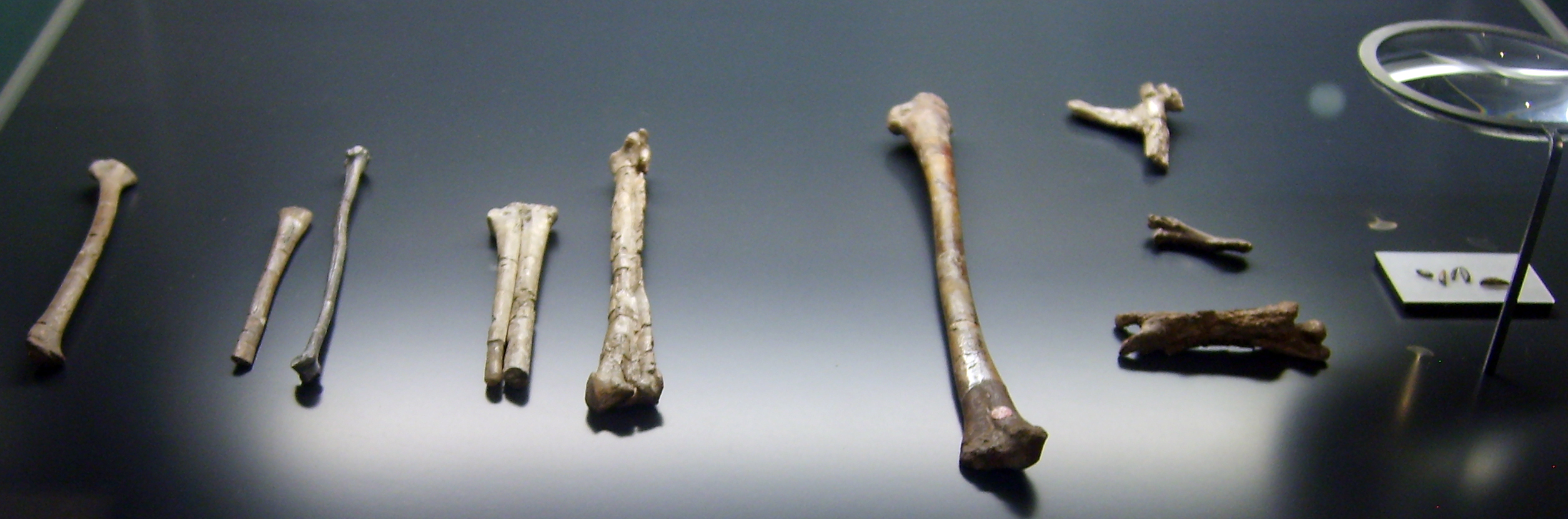 Pterosaur fossils from the Tendaguru Formation at the Museum für Naturkunde, Berlin.